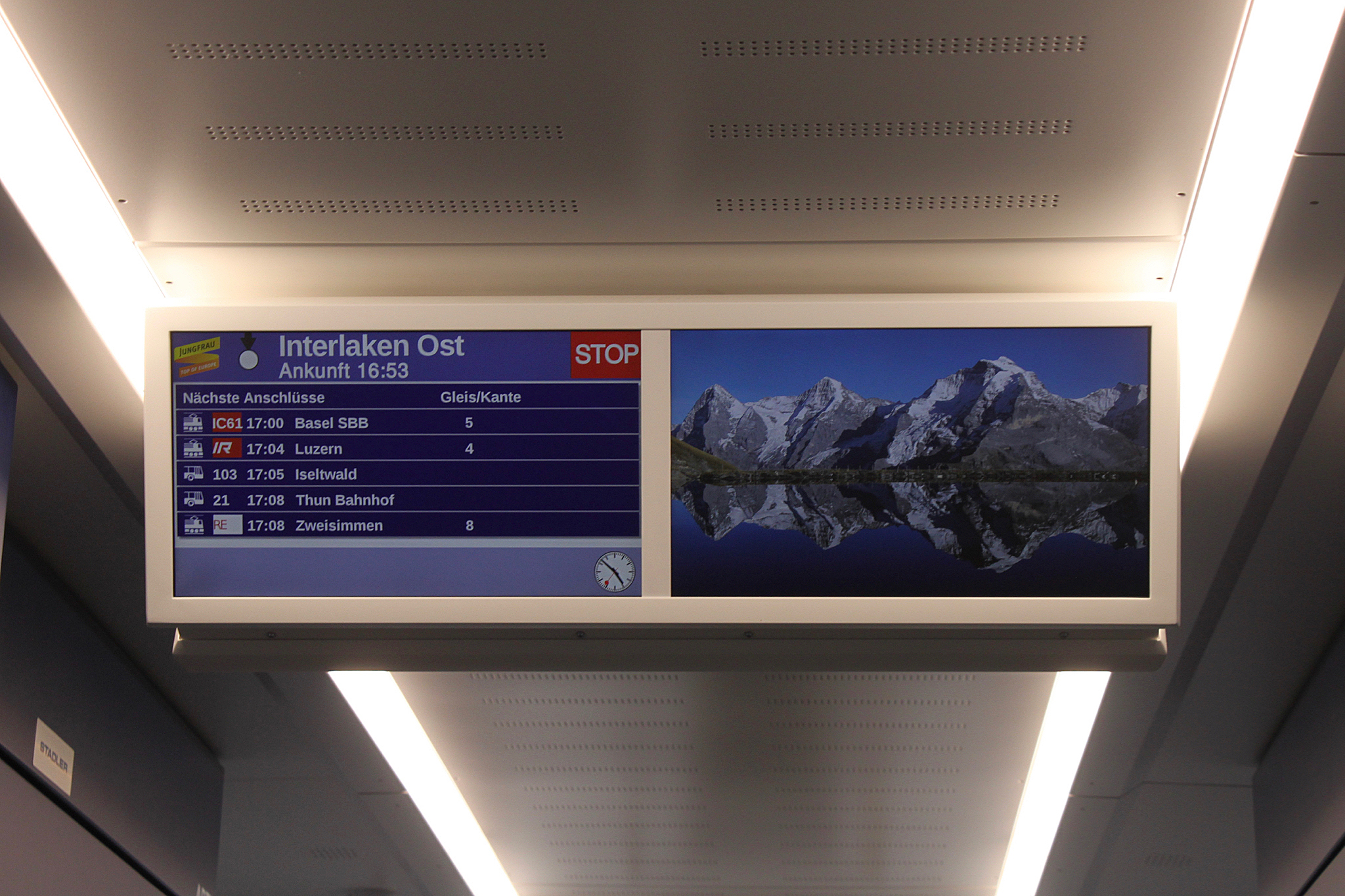 Connections shown on a display on board BOB ABDeh 8/8 324.